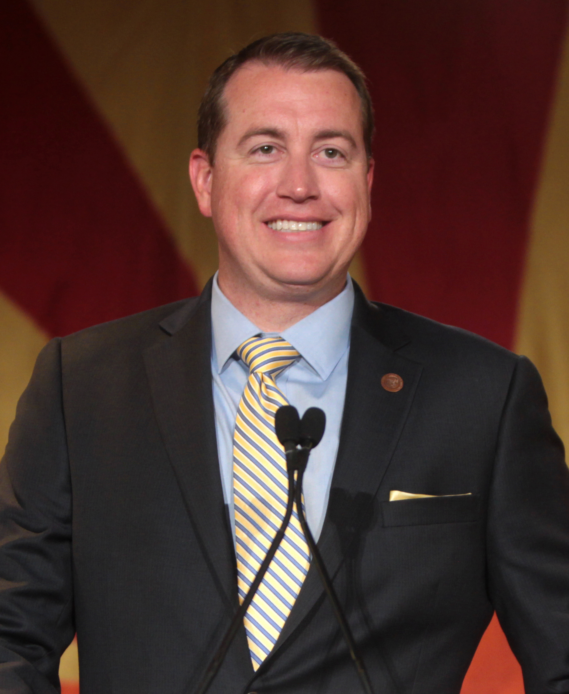 Jeff DeWit speaking at a campaign rally in Phoenix, Arizona.